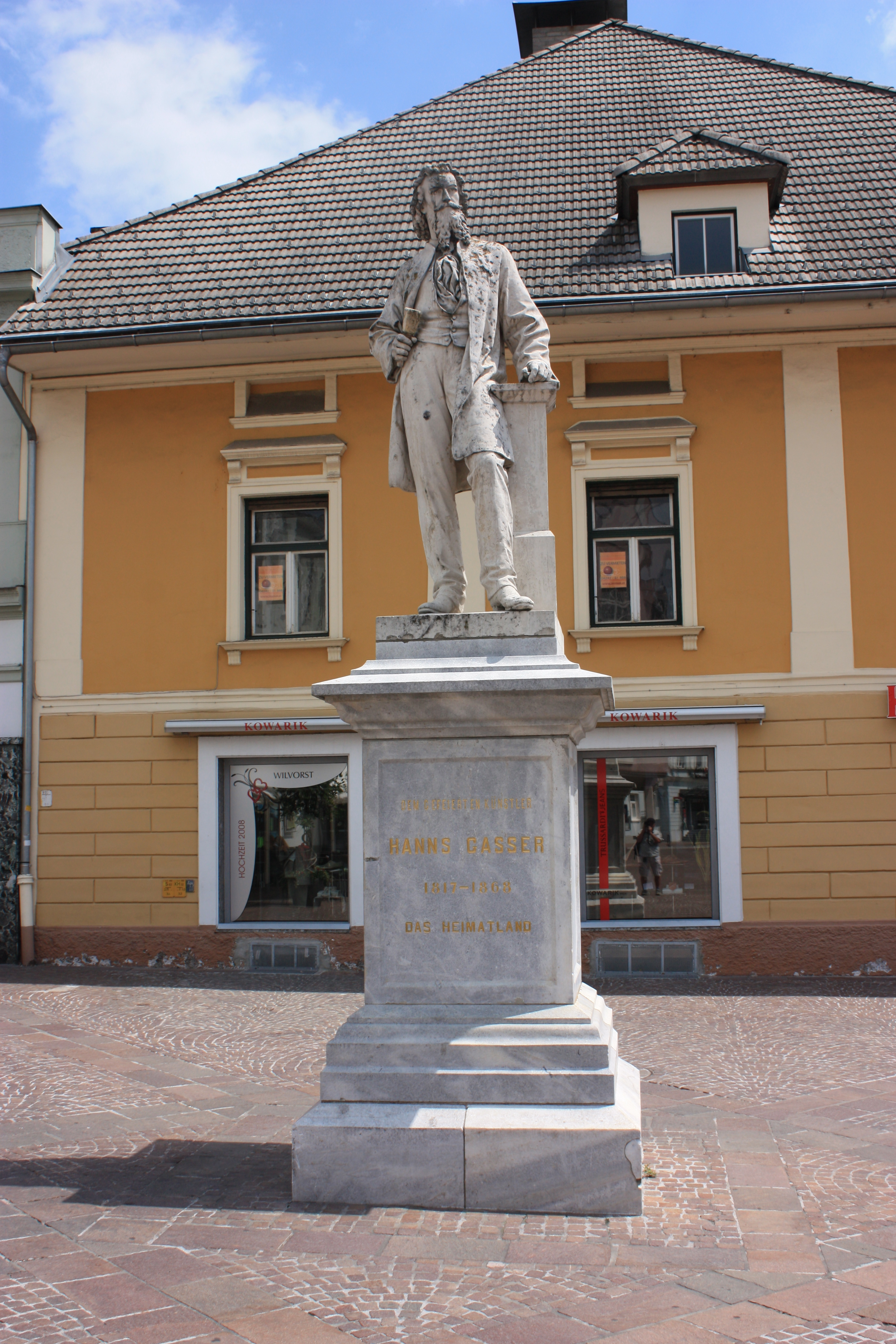 Hans-Gasser-monument in Villach